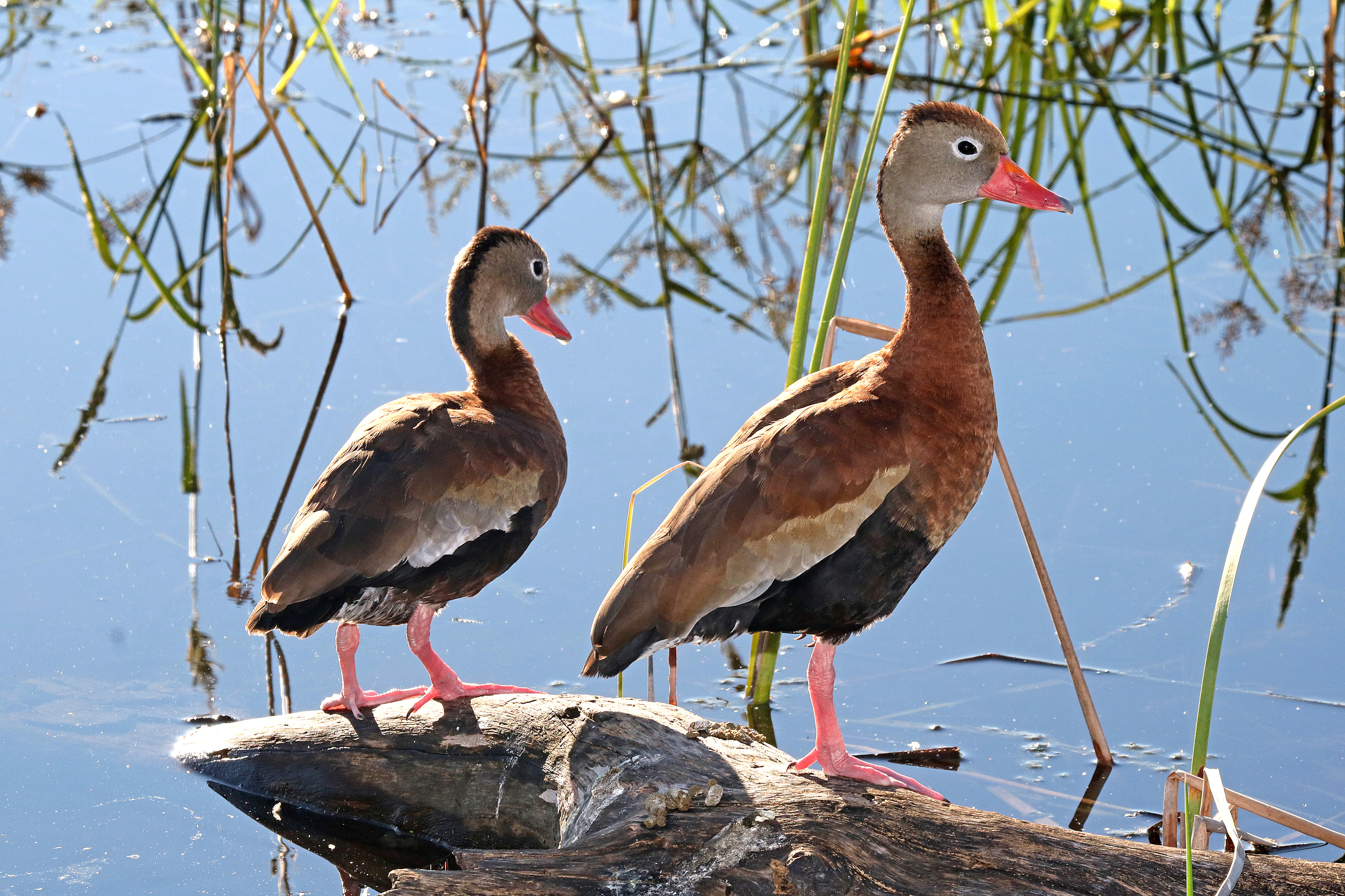 ABA AREA BIRDS: My Photo "Life List"